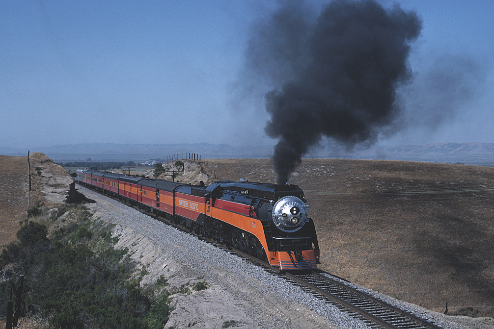 SP 4449 Clinbing out of Guadalupe toward Casmalia in May of 1989 on the way to the 50th anniversary celebration at Los Angeles Union Passenger Terminal